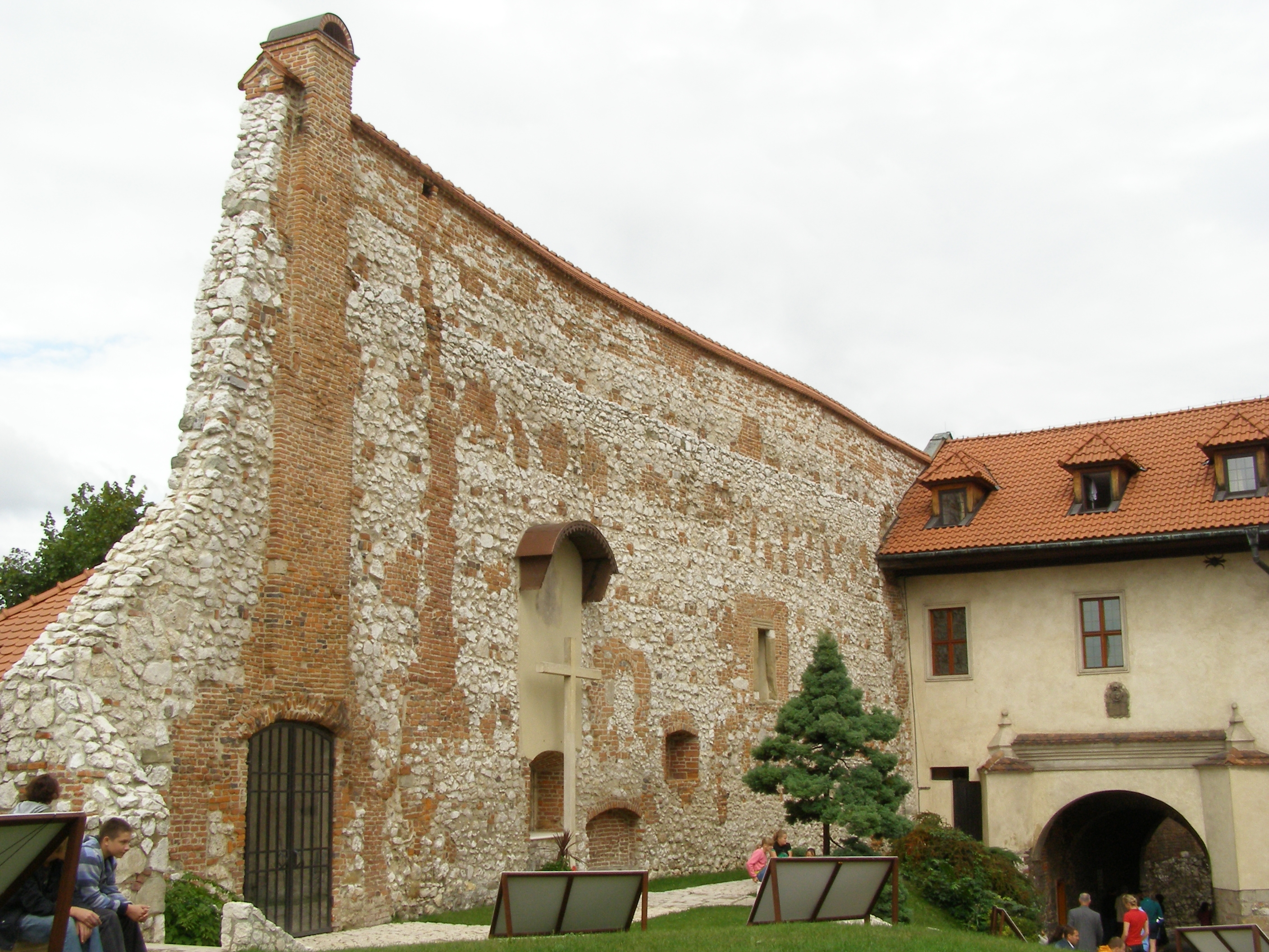 Kraków - benedictine abbey in Tyniec